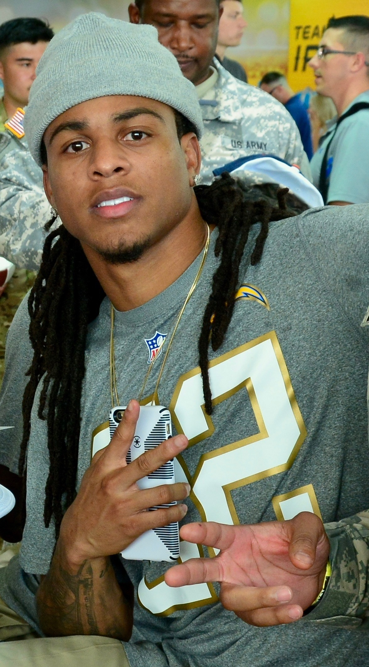 San Diego Chargers Cornerback Jason Verrett stop for a quick photo opportunity with Sgt. 1st Class Kevin Edmondson, Regional Health Command-Pacific, while watching the 2016 Pro Bowl Draft show at Wheeler Army Airfield, Hawaii, Jan. 27.